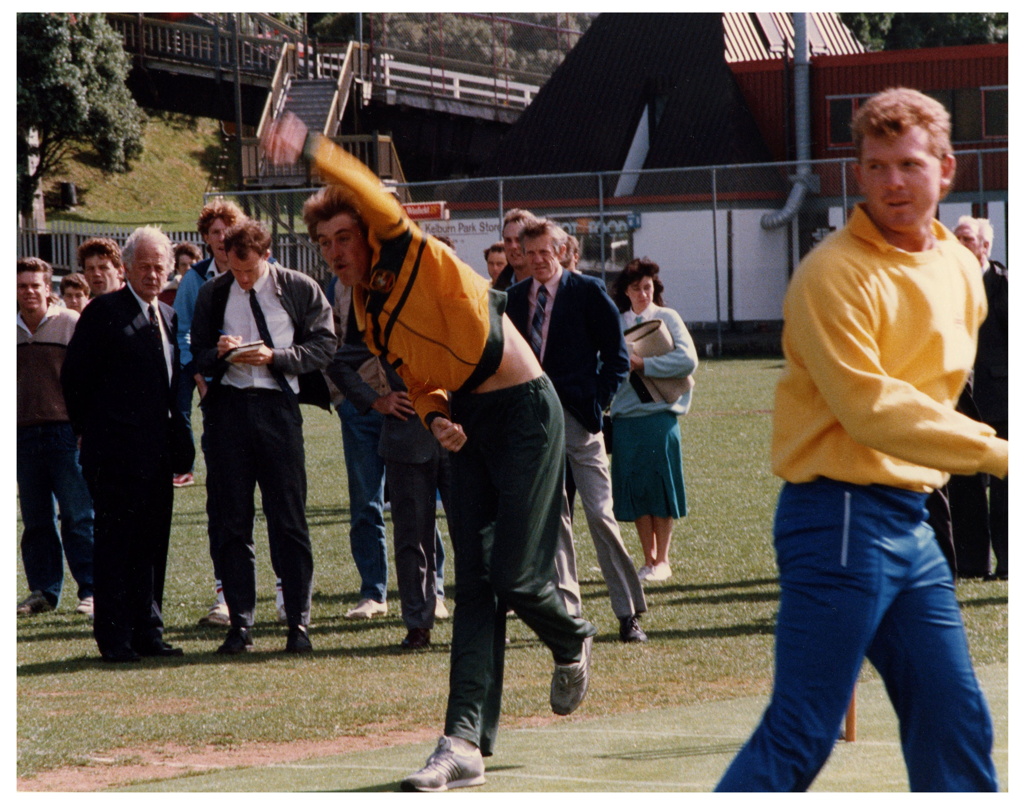 In 1986 a group of Australian Cricket stars visited Victoria University in Wellington to promote the installation of an artificial cricket pitch at Kelburn Park. The park is owned by Wellington City Council but has been the home of Victoria University Cricket Club since 1906. The stars were Allan Border, Craig McDermott, Bruce Reid and Geoff Marsh. We assume that the pitch was sponsored by New Zealand Post as there are images of the pitch with the New Zealand Post logo applied. Pictured here are bowlers Bruce Reid and Craig McDermott. Bruce Reid played 27 tests and 61 One Day Internationals for Australia. His last appearance was in 1992. Craig McDermott played 71 tests and 138 One Day Internationals for Australia. His last appearance was in 1996. Since retiring from playing he has had stints as an international coach and has set up an academy in Brisbane. This image is from a series of photos transferred by New Zealand Post to Archives New Zealand. The collection was part of the Post Office Museum and Archives. This image and other items from the series can be seen in the Wellington Reading Room of Archives New Zealand. For further enquiries please File Reference: AAME 8106 W5603 125 11/10/111 Throughout the Cricket World Cup 2015, Archives New Zealand will be highlighting a selection of cricket related records which are found in our holdings. For further updates on our cricket posts and other streams follow us on Twitter Material from Archives New Zealand